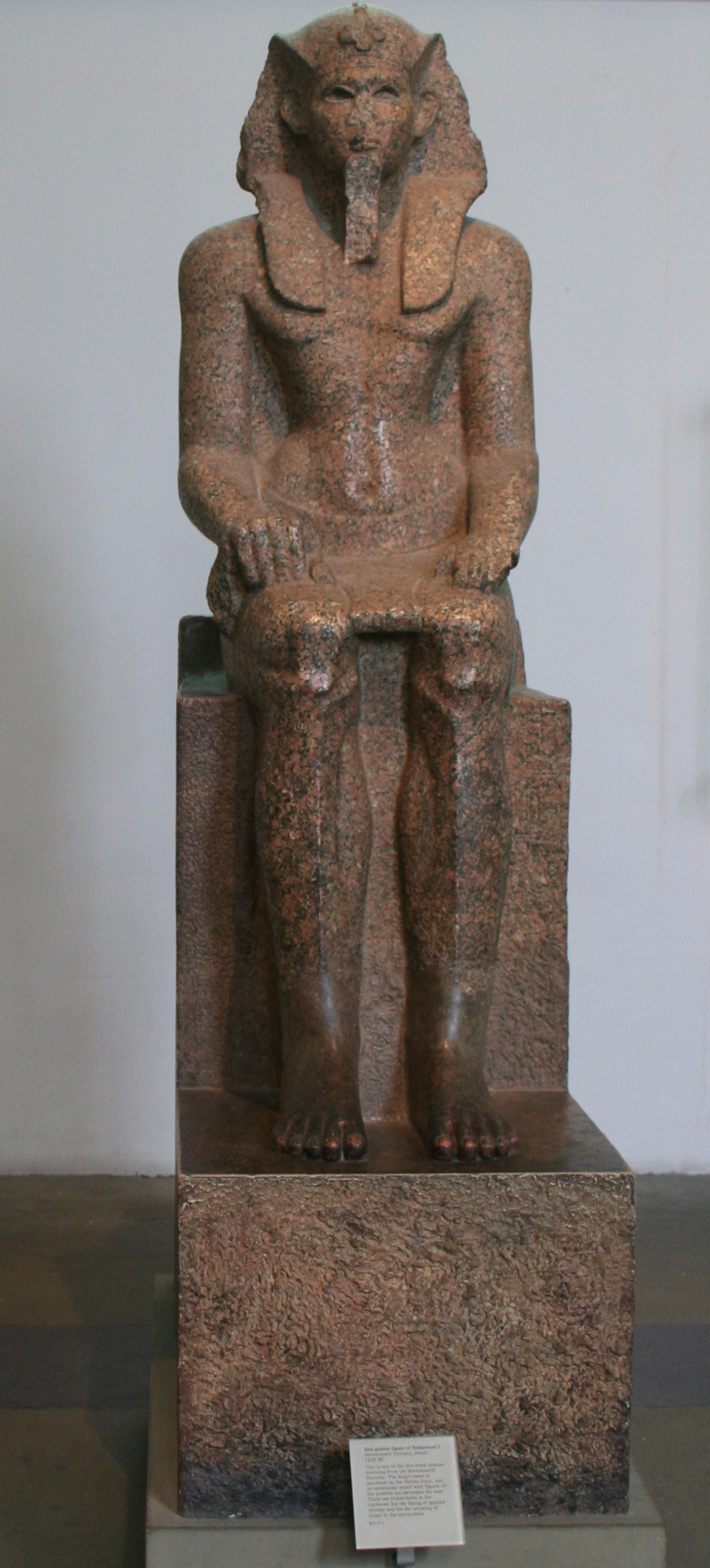 A red granite statue of Sekhemre Wadjkhaw Sobekemsaf I. British Museum, London EA 871. (see note) This pharaoh performed "extensive restoration works at the temple of Month[u] at Madamud." (source: Kim Ryholt, The Political Situation in Egypt during the Second Intermediate Period c.1800-1550 B.C, Museum Tuscalanum Press, p.170)